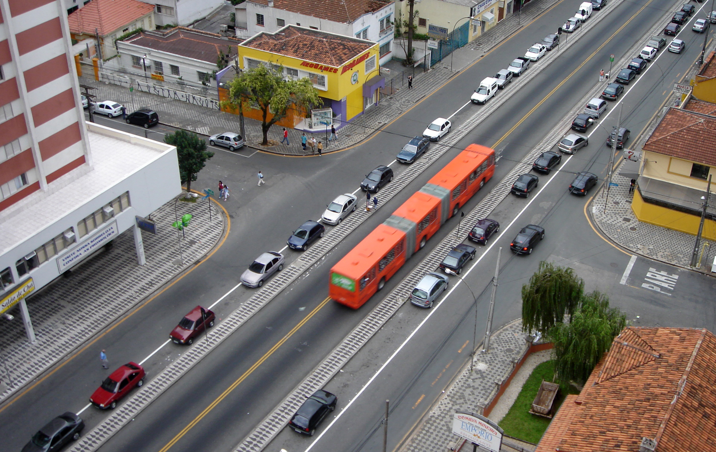 Bi-articulated bus in exclusive central bus lane at Ave. 7 de setembro (South trunk line) near Curitiba Shopping, RIT Curitiba, Brazil.